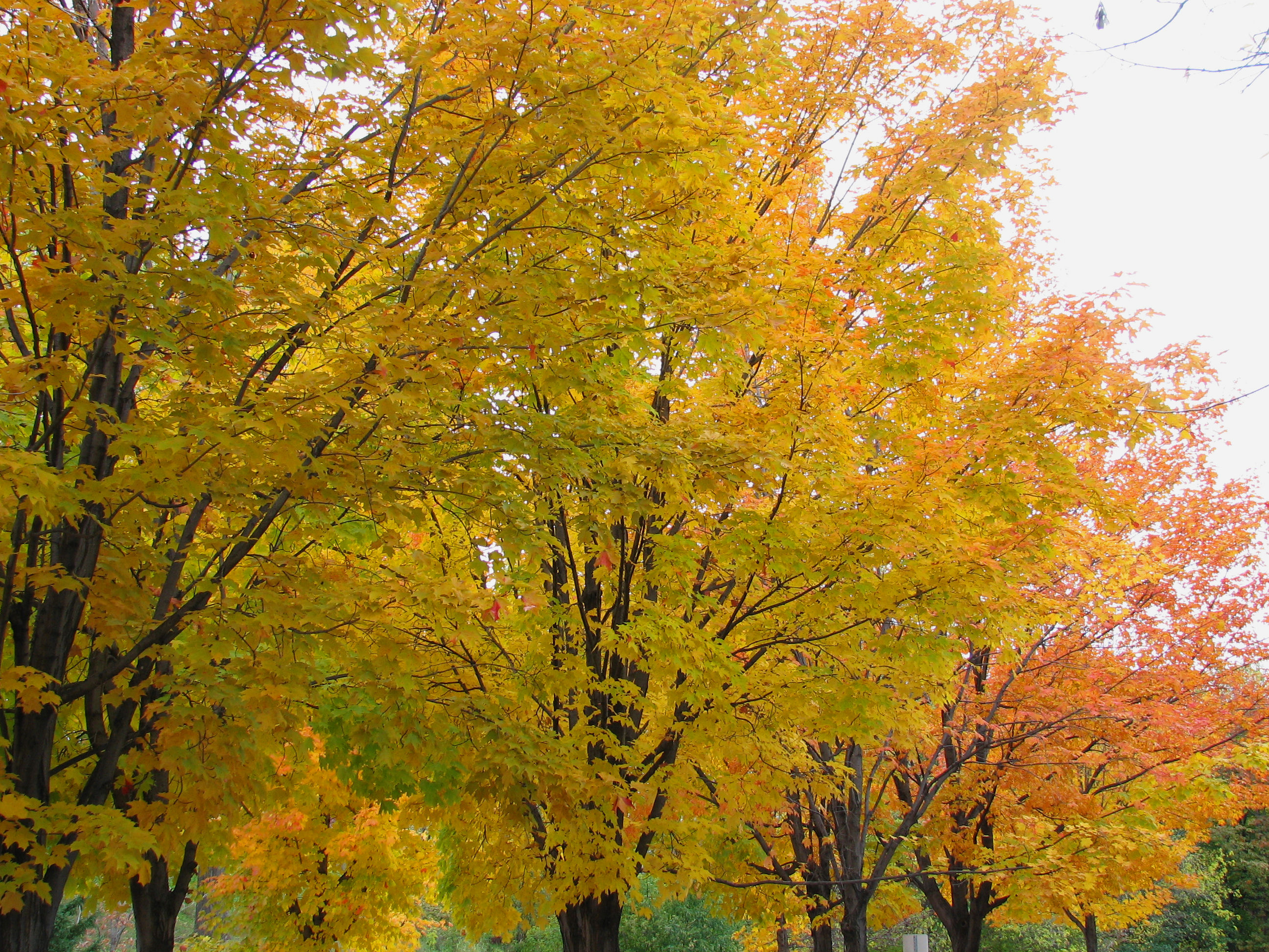 Sugar Maple trees in fall colours, Dutchy's Hole Park, Ottawa, Ontario, Canada